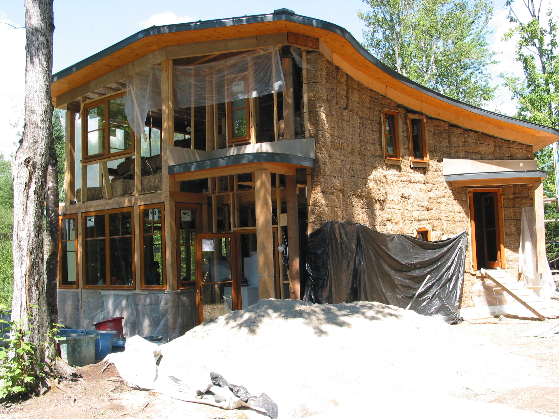 Building a straw-bale house, Designed by Carina Rose